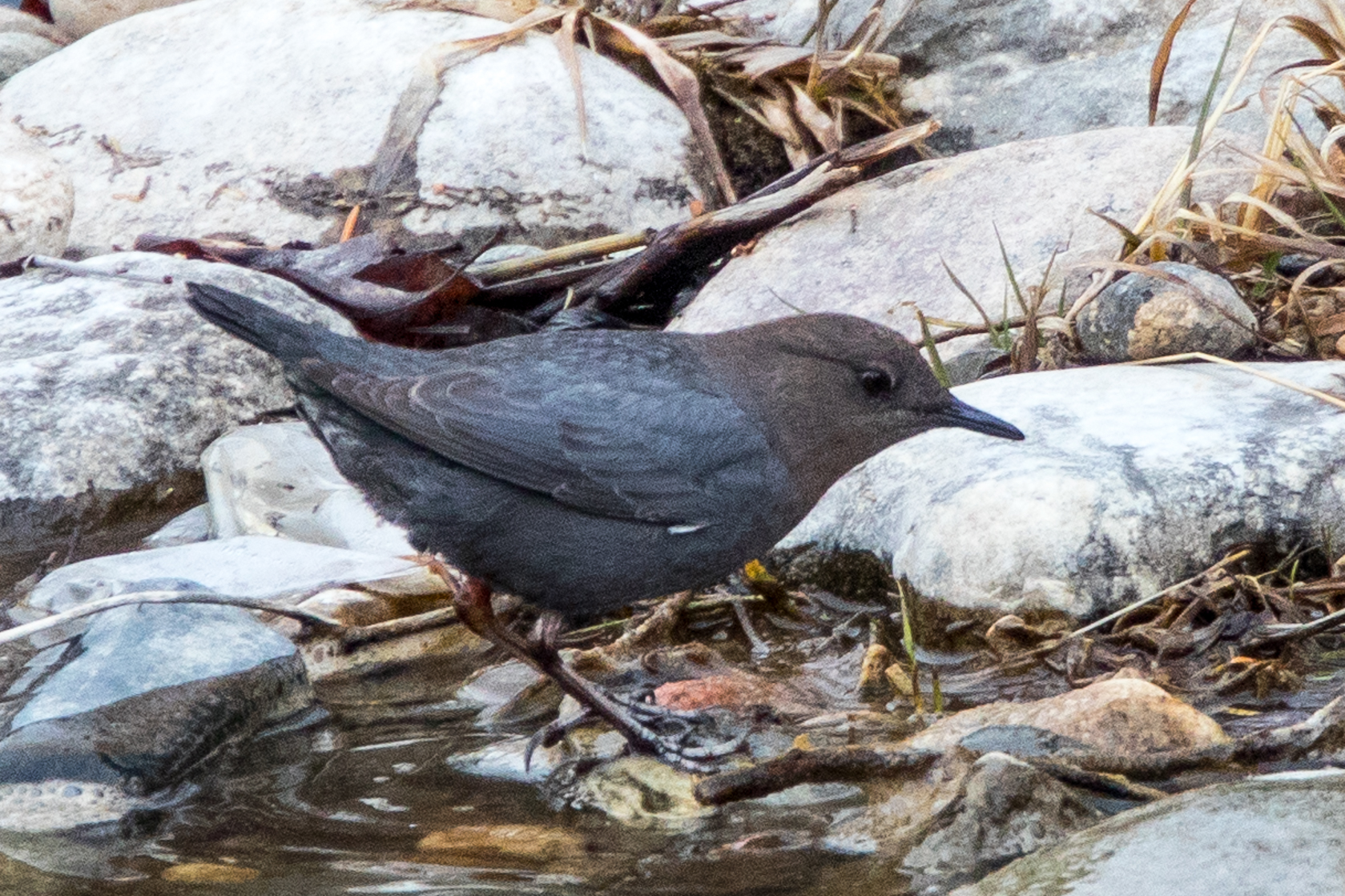 Blue River, Silverthorne, Colorado have now seen all the Dippers of the World